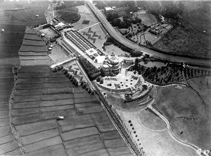 Air photo of Villa Isola near Bandung